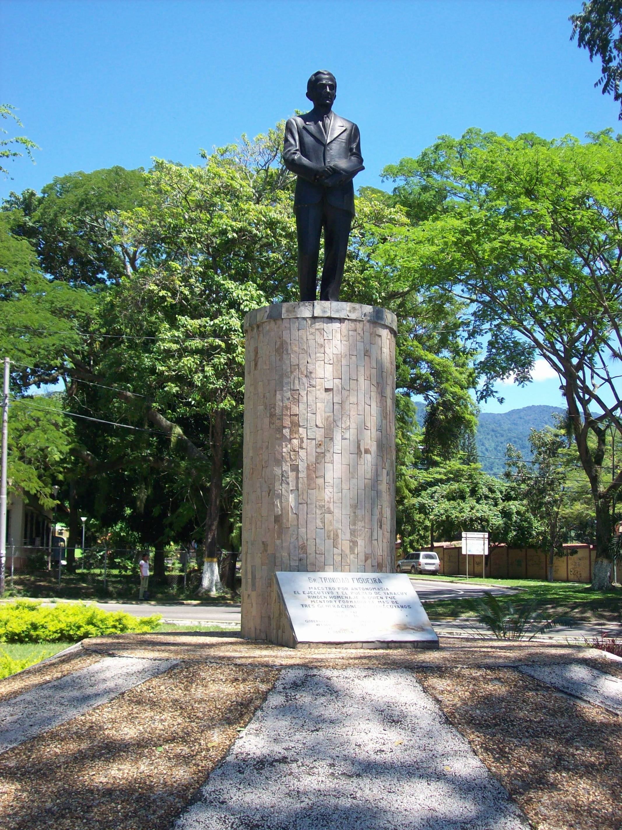 "Br. Figueira Trinidad" square, the fields Oasis in San Felipe. Yaracuy State. Venezuela